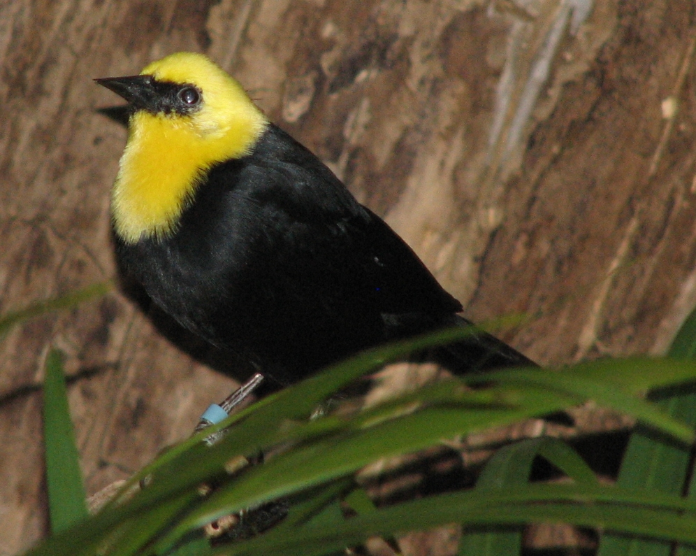 Yellow Hooded Blackbird - Agelaius icterocephalus